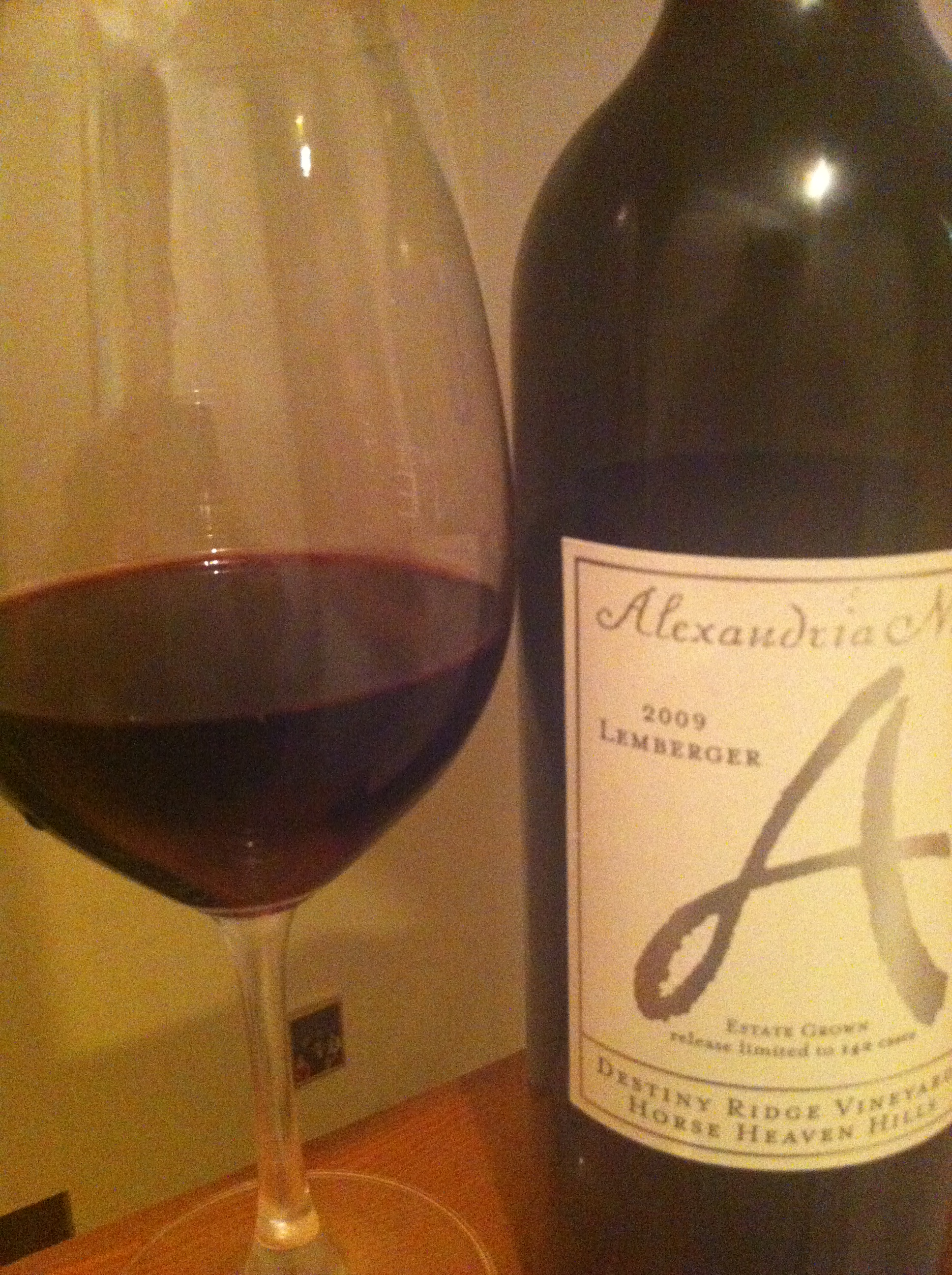 Lemberger/Blaufranksich wine from Washington wine producer Alexandria Nicole Cellars